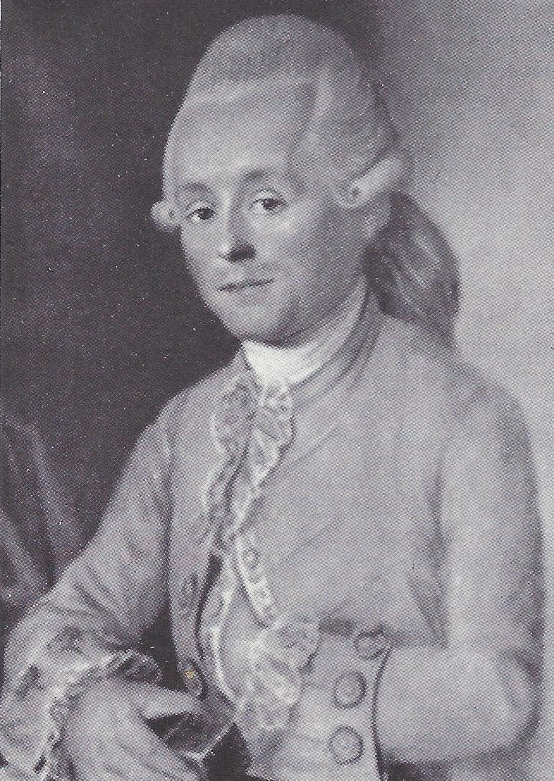 Portrait Jean-André Venel, about 1766